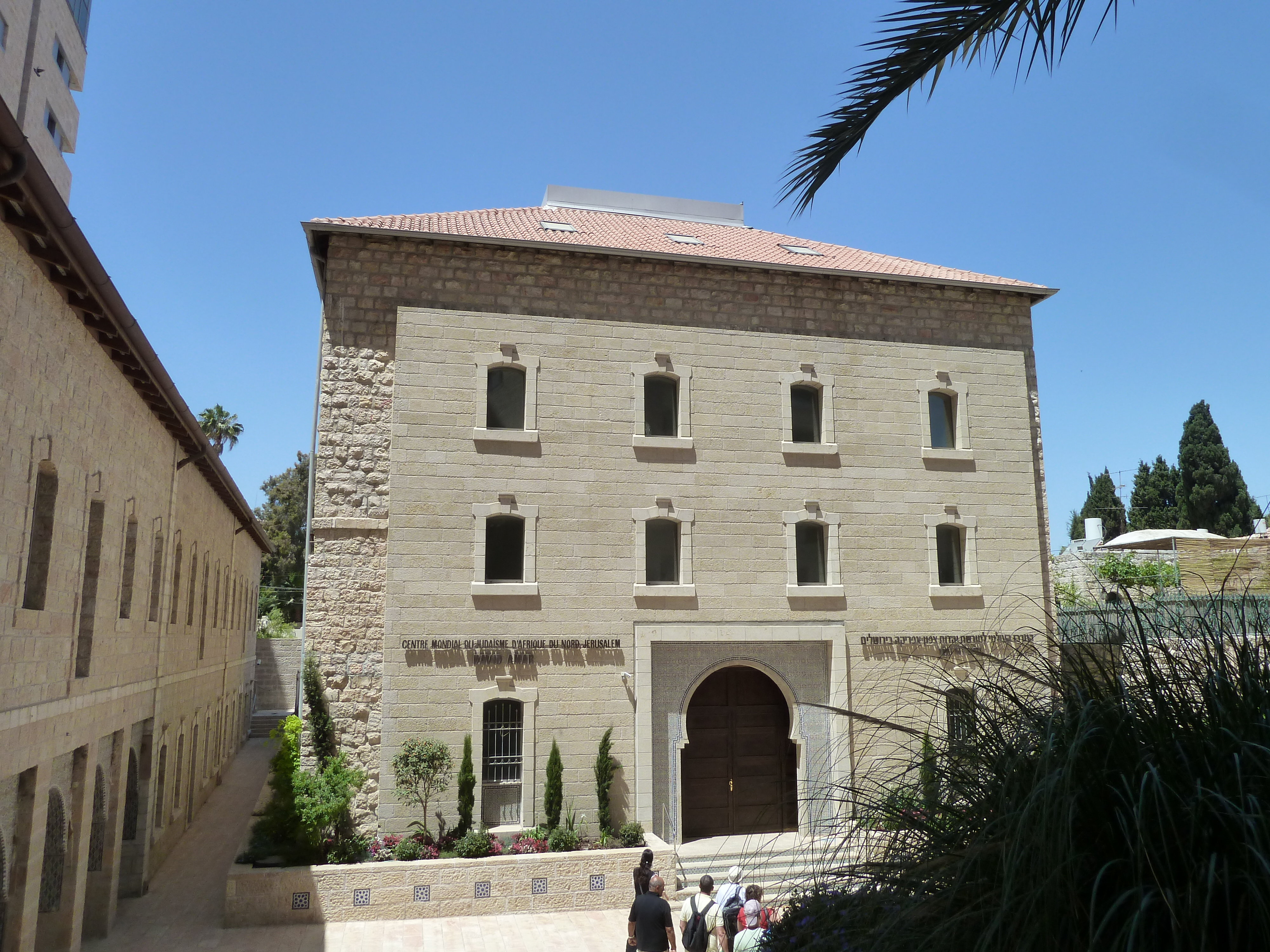 The David Amar Worldwide North Africa Jewish Heritage Center, 13 HaMaaravim, Jerusalem, Israel